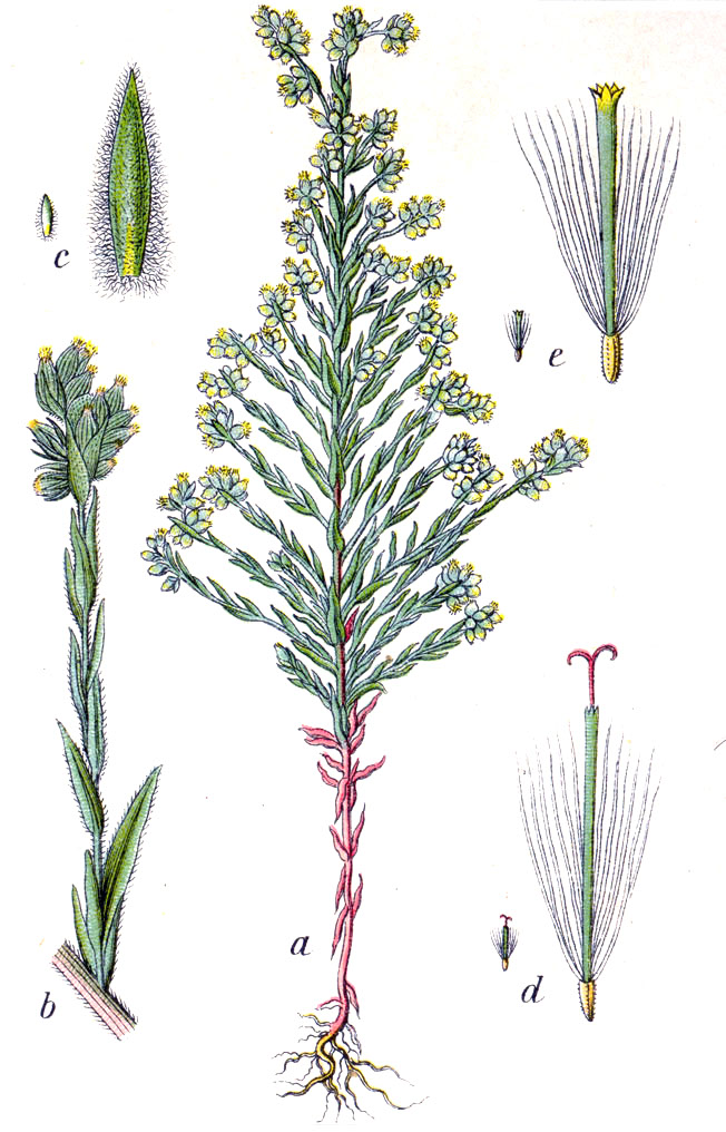 Filago arvensis L. Original Caption Acker-Ruhrkraut, Filago arvensis